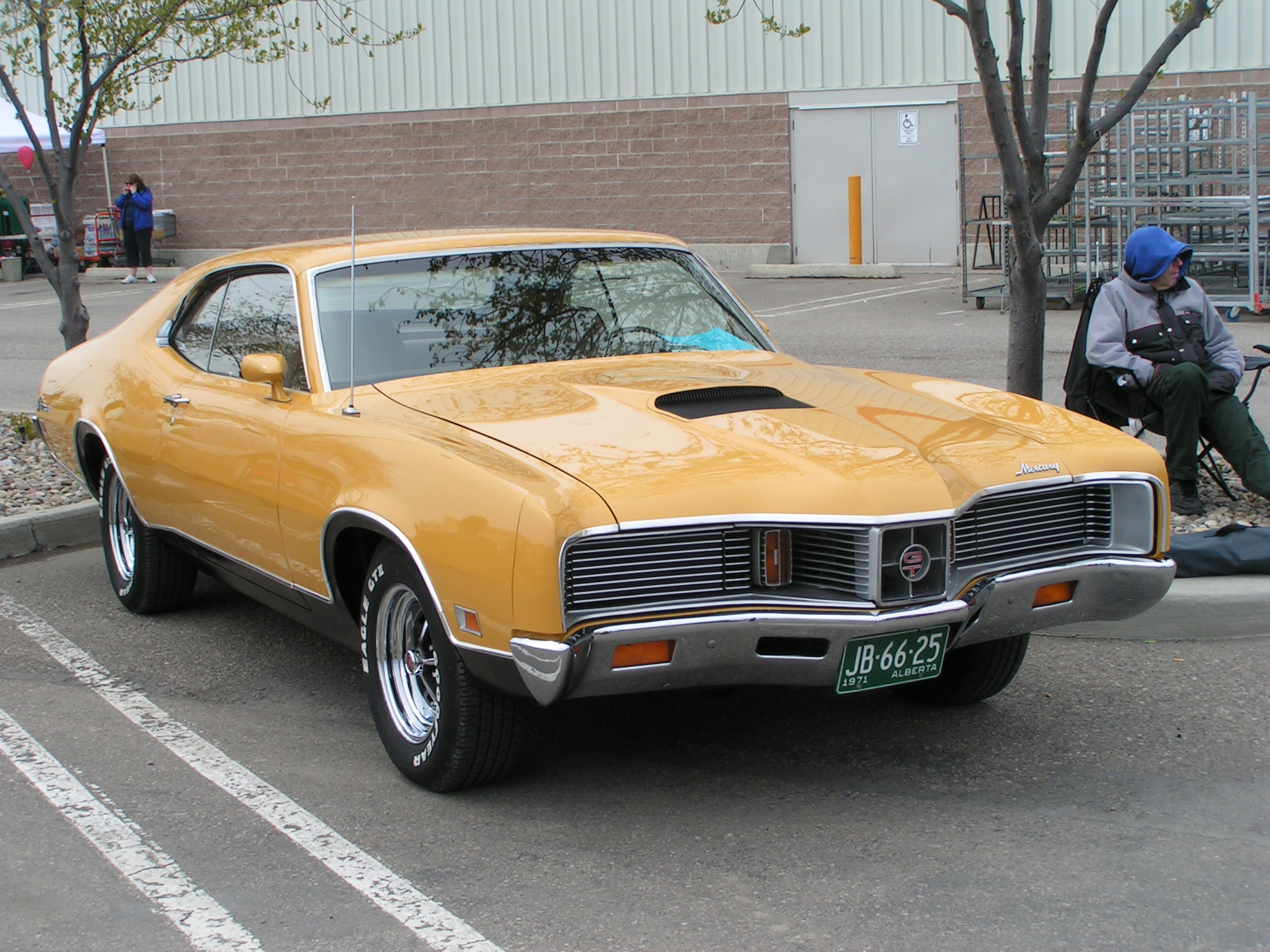 1971 Mercury Cyclone GT